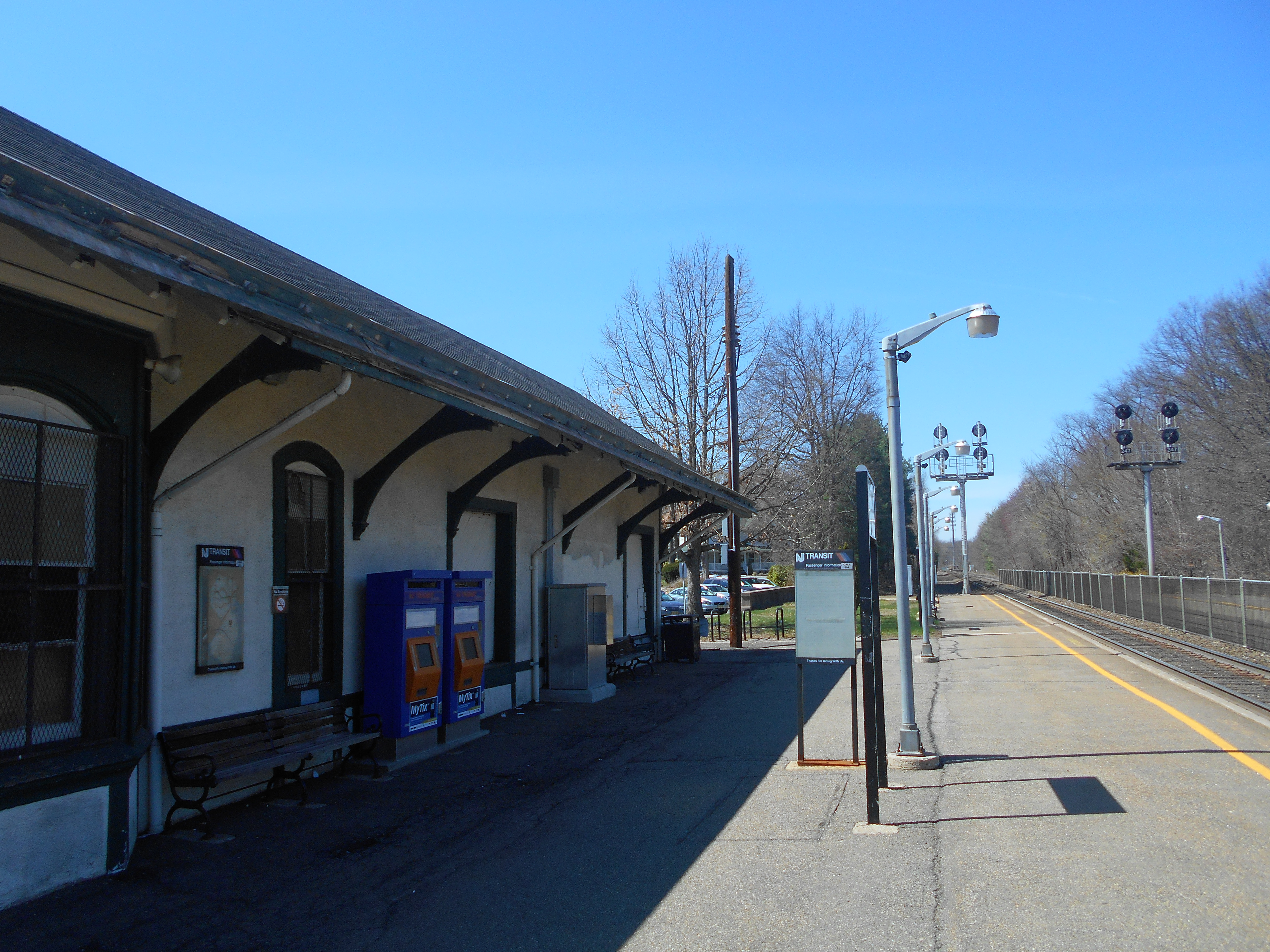 The inbound platform at Allendale station in Allendale, New Jersey in 2014.